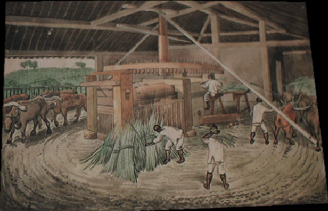 Sugarcane mill in SÃ£o Carlos, SÃ£o Paulo, Brazil. Watercolor by HÃ©rcules Florence, 1840.